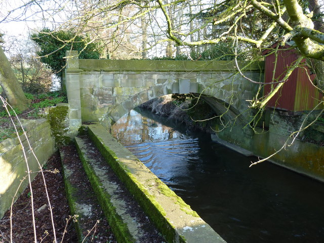 Footbridge adjacent to road bridge, Ham, Berkeley